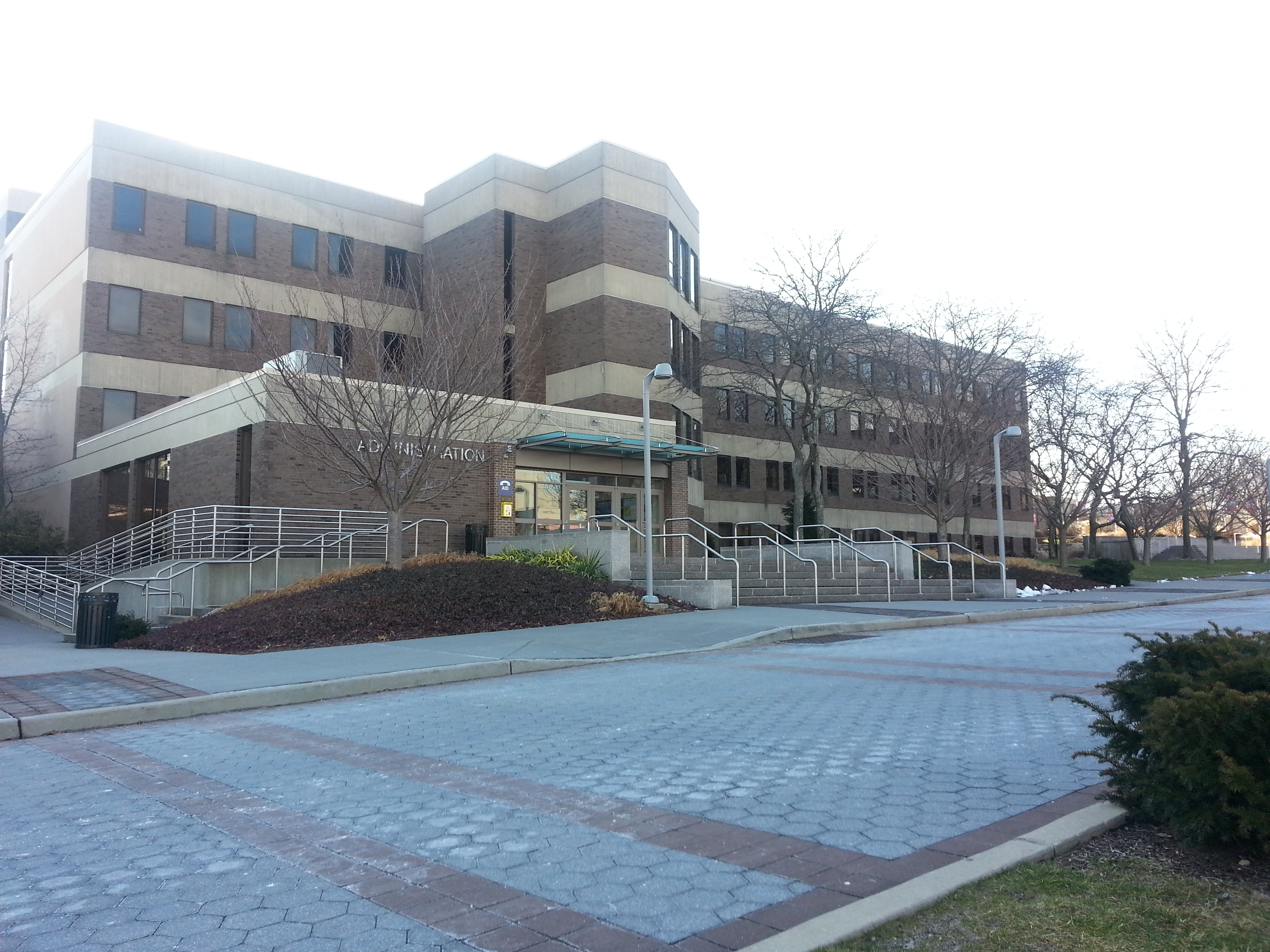 Administration Building 1st Floor Front Stony Brook University